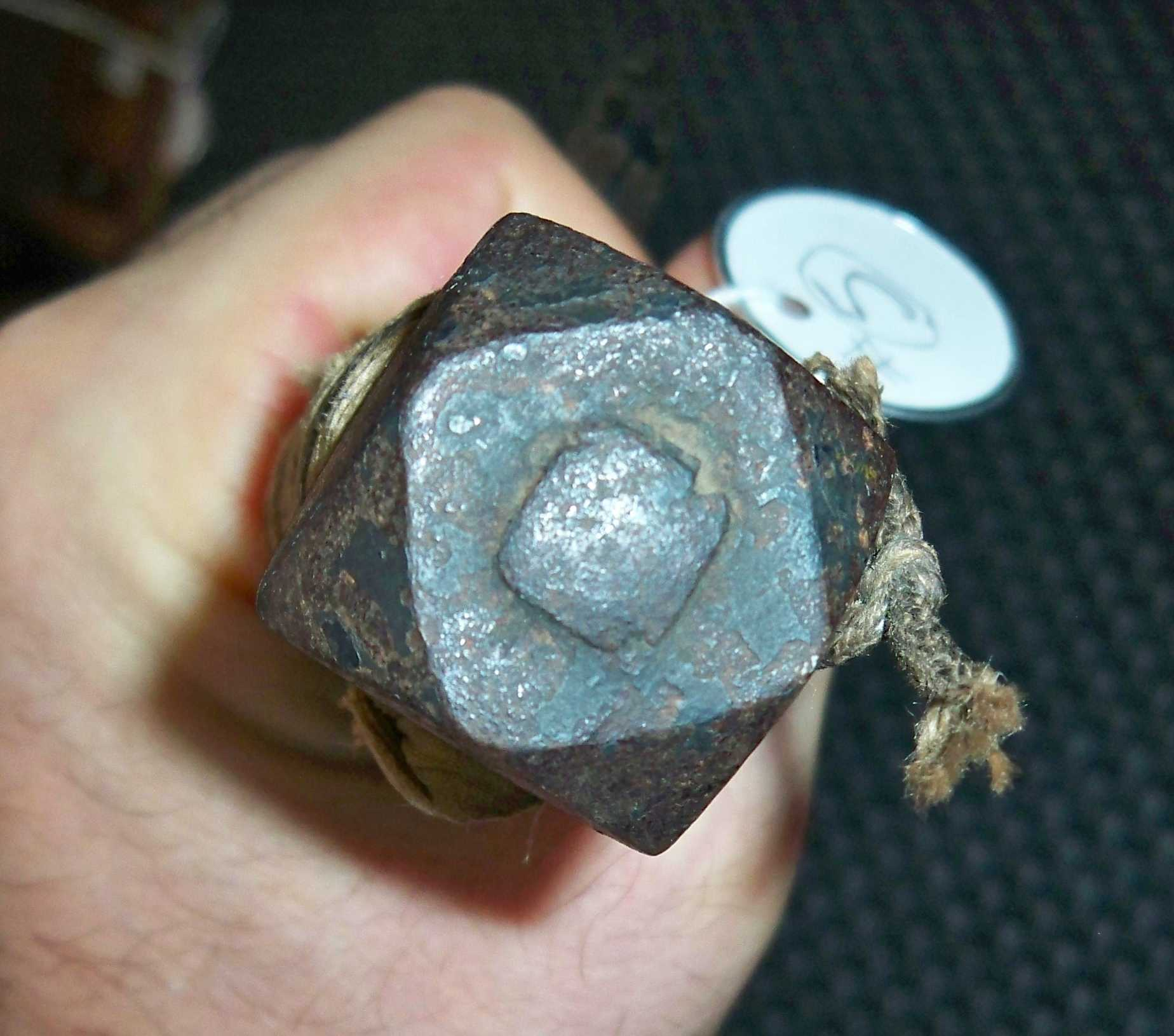 Tsukagashira, the pommel or butt of a sai.